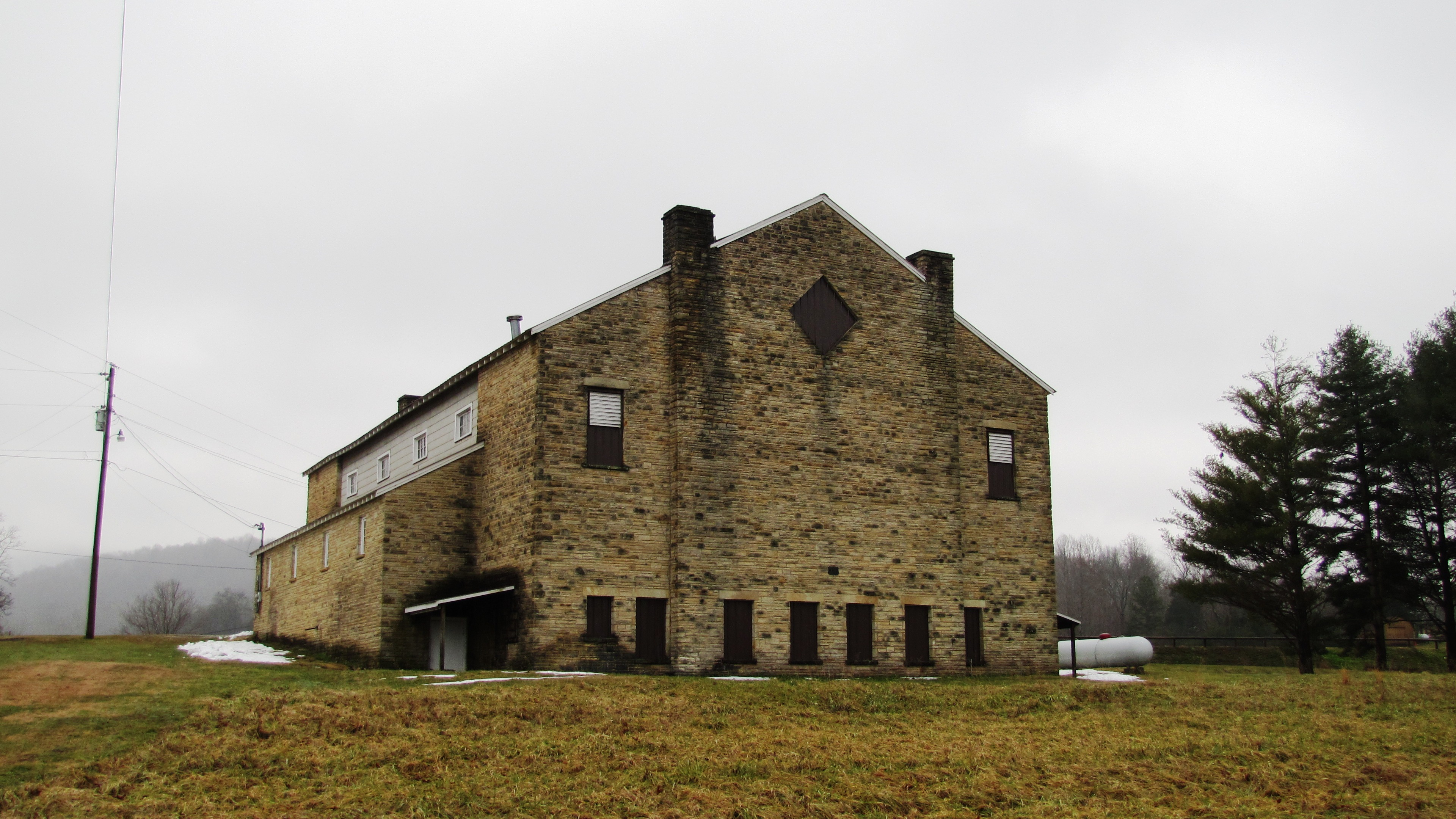 Building that once housed the gymnasium of the Alpine Institute (1821-1947) in Alpine, Tennessee, USA. This building was built by the Works Progress Administration in 1939, using native limestone.